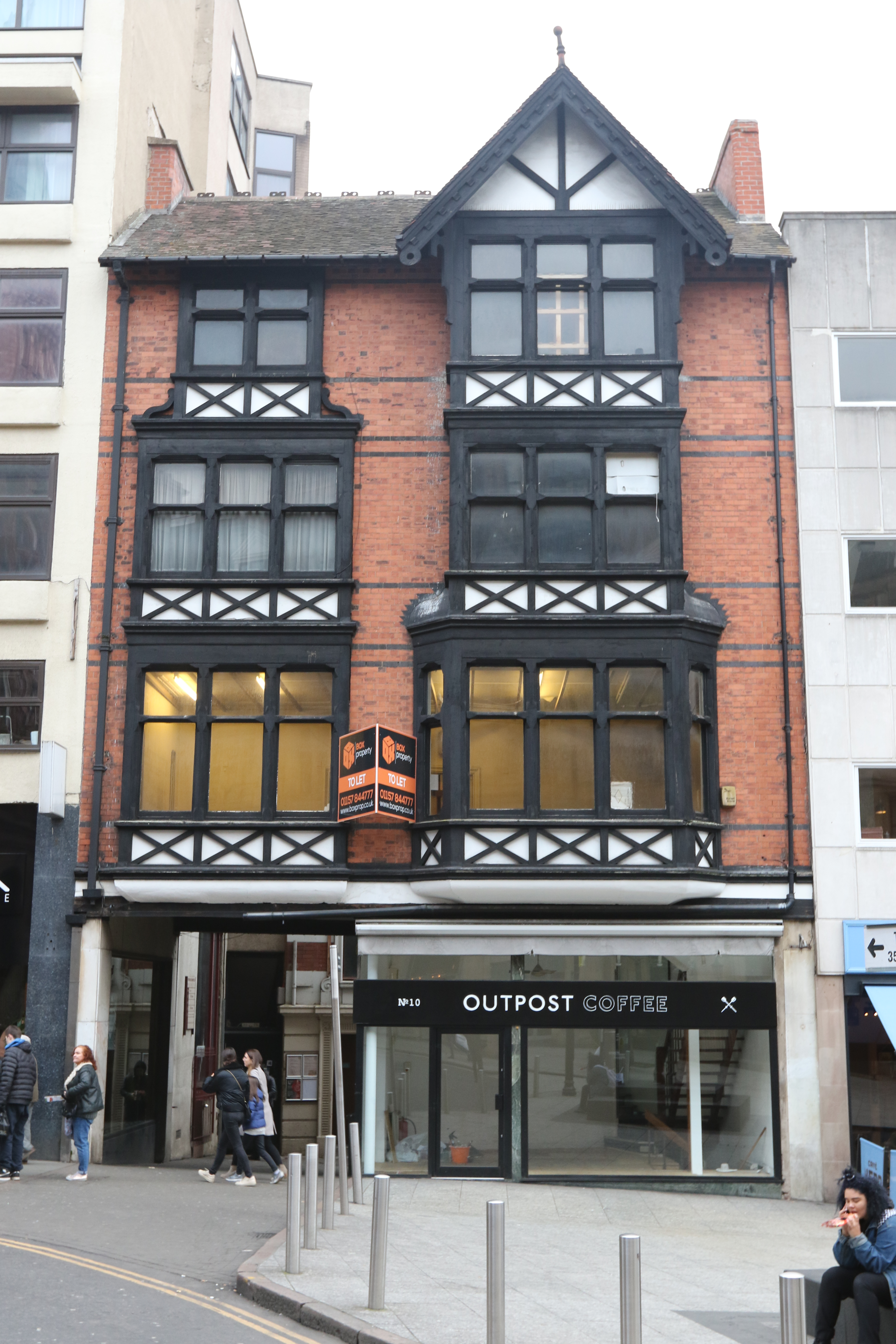 Outpost Coffee. Architects: Frederick Ball & John Lamb 1894-6.